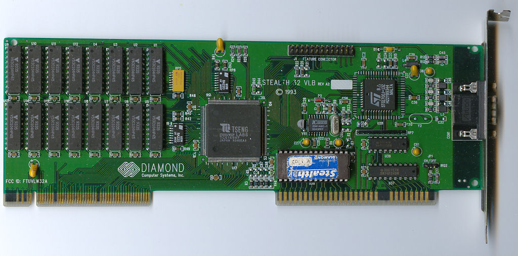 Diamond Stealth 32 VLB. Scanned card.